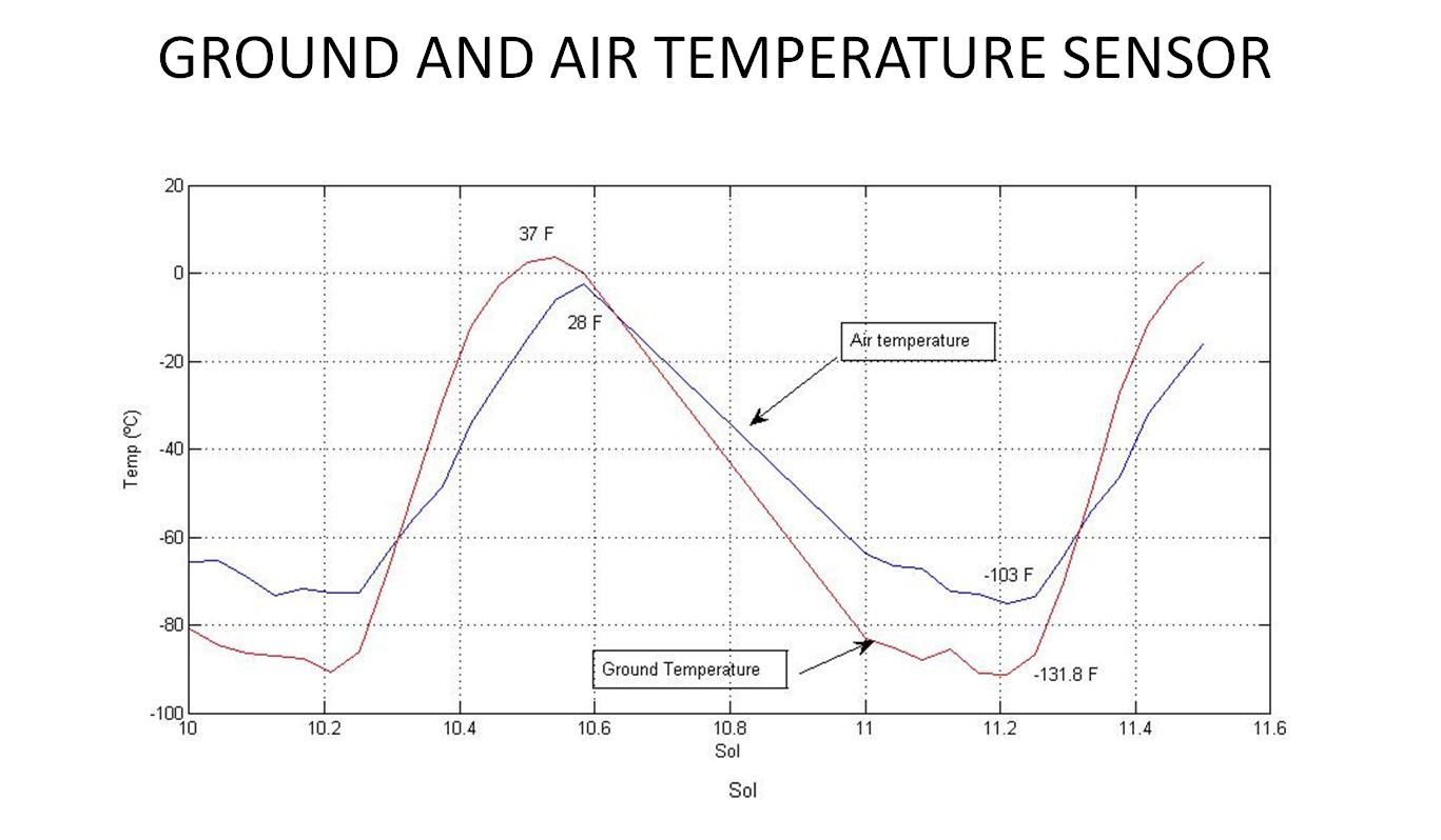 08.21.2012 Taking Mars' Temperature This graph shows the rise and fall of air and ground temperatures on Mars obtained by NASA's Curiosity rover. The data cover Aug. 16 to Aug. 17, 2012 and were taken by the Rover Environmental Monitoring Station. Ground temperatures vary from as high as 37 degrees Fahrenheit (3 degrees Celsius) to as low as minus 131.8 degrees Fahrenheit (minus 91 degrees Celsius), showing large temperature oscillations from day to night. Air temperatures vary from as high as 28 degrees Fahrenheit (minus 2 degrees Celsius) to as low as minus 103 degrees Fahrenheit (minus 75 degrees Celsius), indicating, as expected, variations in air temperatures are less extreme than ground temperature variations. Image Credit: NASA/JPL-Caltech/CAB(CSIC-INTA)